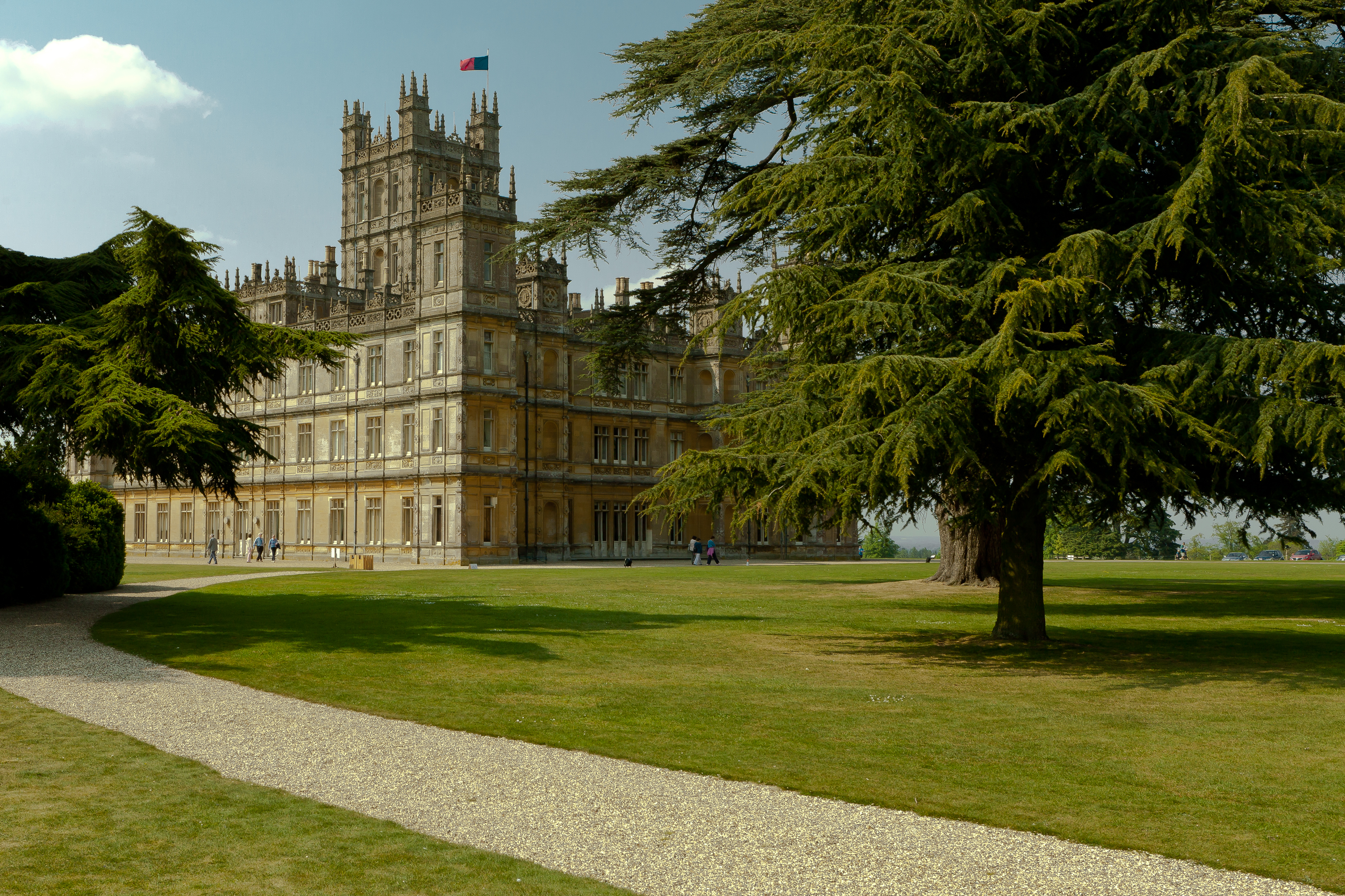 Highclere Castle (Downton Abbey) and landscape gardens with historic Lebanon cedar (Cedrus libani) trees.